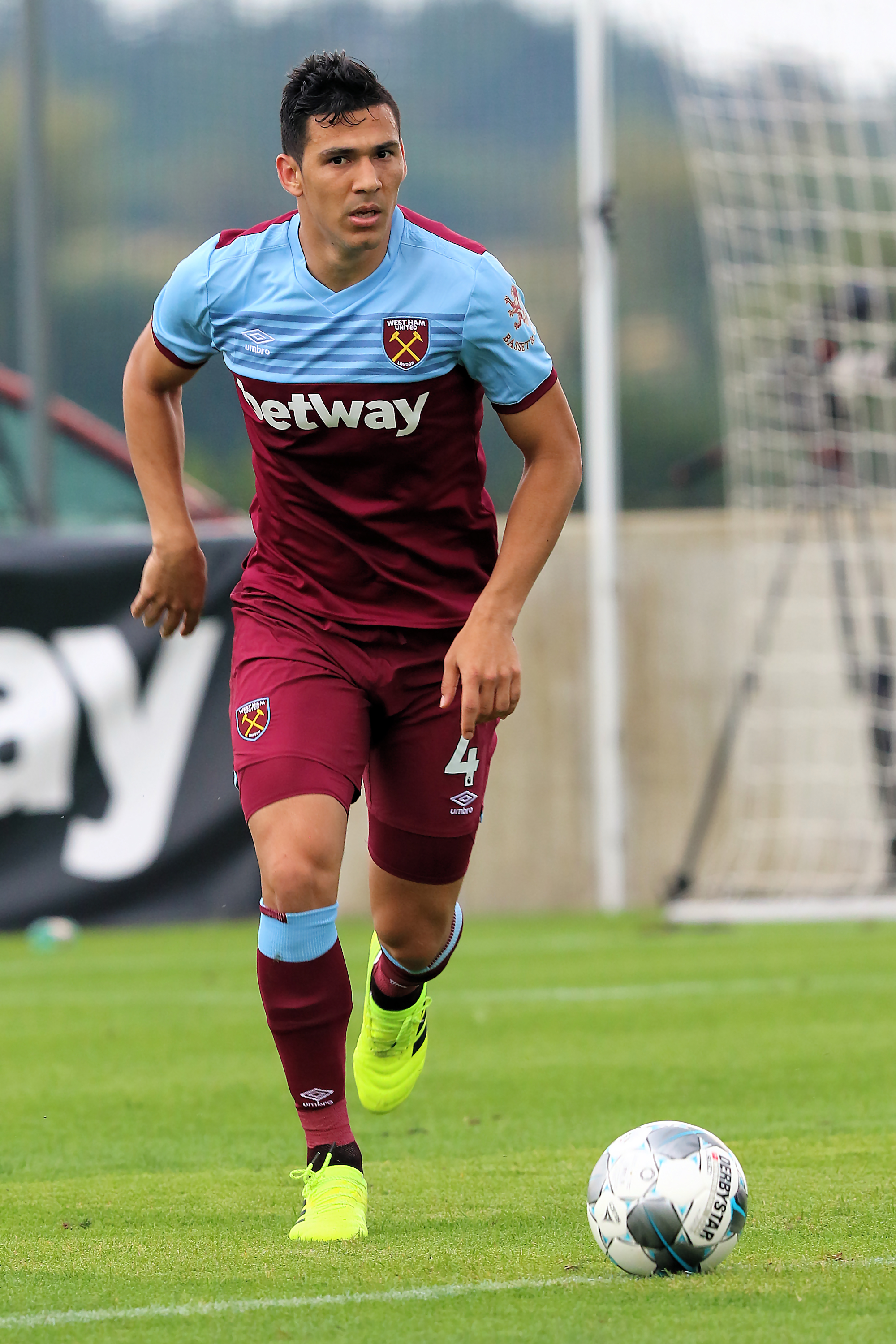 Friendly match Hertha BSC (blue-white shirts) vs. West Ham United (red-blue shirts) at 31-07-2019 3-5 (3-2) in the Sonnenseestadium in Ritzing. – The photo shows Fabián Balbuena (West Ham United).